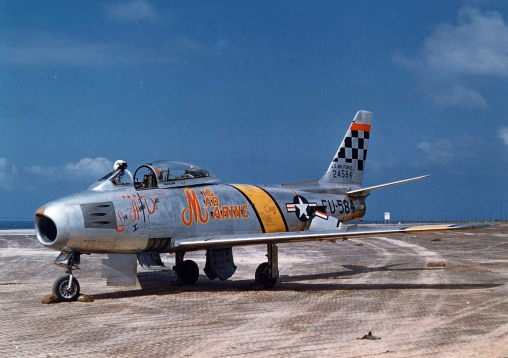 A U.S. Air Force North American F-86F-30-NA Sabre (s/n 52-4584) in 1953. This plane was flown by U.S. Marine Corps Major John H. Glenn and dubbed "MiG Mad Marine". Glenn flew this aircraft during his time as an exchange pilot with the 25th Fighter Squadron, 51st Fighter Wing, in Korea in mid 1953. He shot down three MiG-15 aircraft. John Glenn later became an astronaut and U.S. senator.